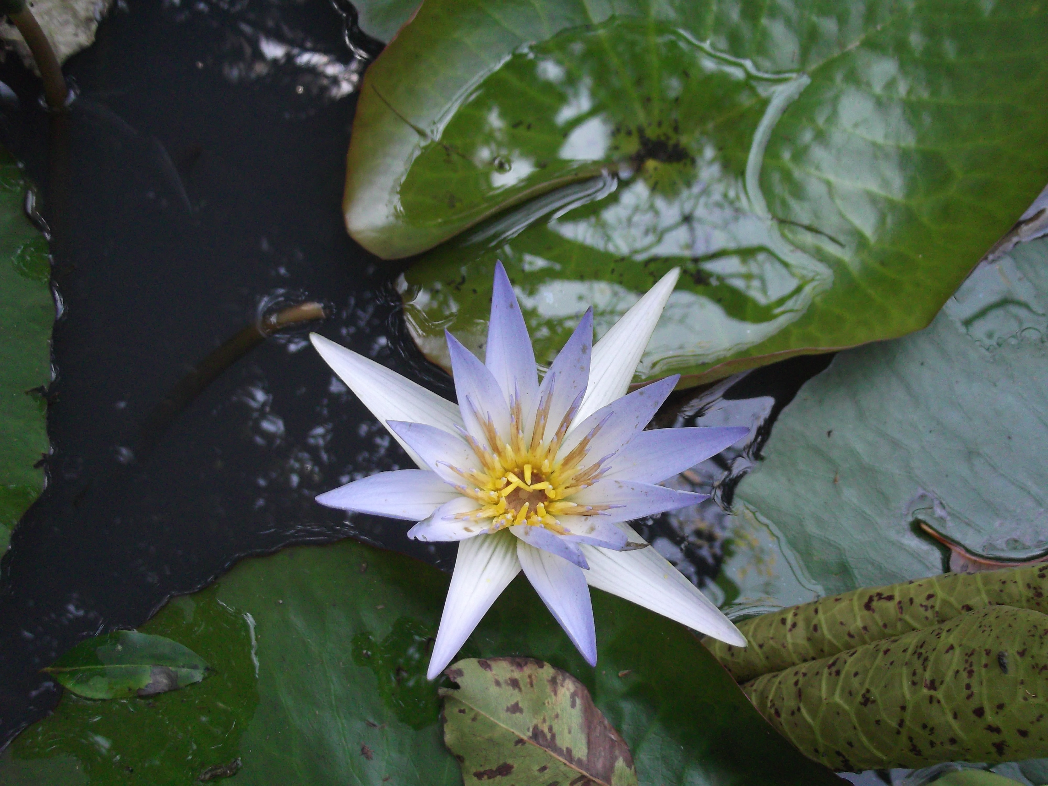 Aquatic plant,blue flower.